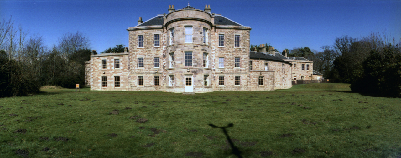 (C) Paul Russell, 2006. All Rights Reserved. For subsequent use please seek permission from ' '